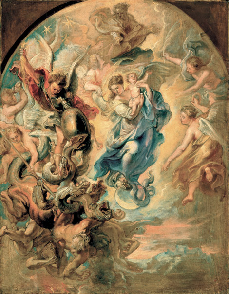 Oil sketch (modello) for the altarpiece commissioned by Prince-Bishop Viet Adam von Gepeckh for Freising Cathedral. Originally commissione to Hans Rottenhammer in 1623. It is unknown when the commission was transferred to Rubens, apparently Rottenhammer was delayed in his work by 1625, and Rubens took over at some point before 1632, when the completed painting is first mentioned when it was evacuated in advance of invading Swedish troops (Memorant Frisingenses chartae, commode ex ara maiori Basilicae cathedralia fuisse praereptim Matris Apocalypticae effigiem, quam manu celebratissimi Rubenii pictam fuisse alibi rettulimus.) In the center the Woman holds her Child while trampling the snake of sin. To the left the angels cast out Satan, (the "great red dragon with seven heads") and other daemons. Above, God instructs an angel to place a pair of wings on the Virgin's shoulders.